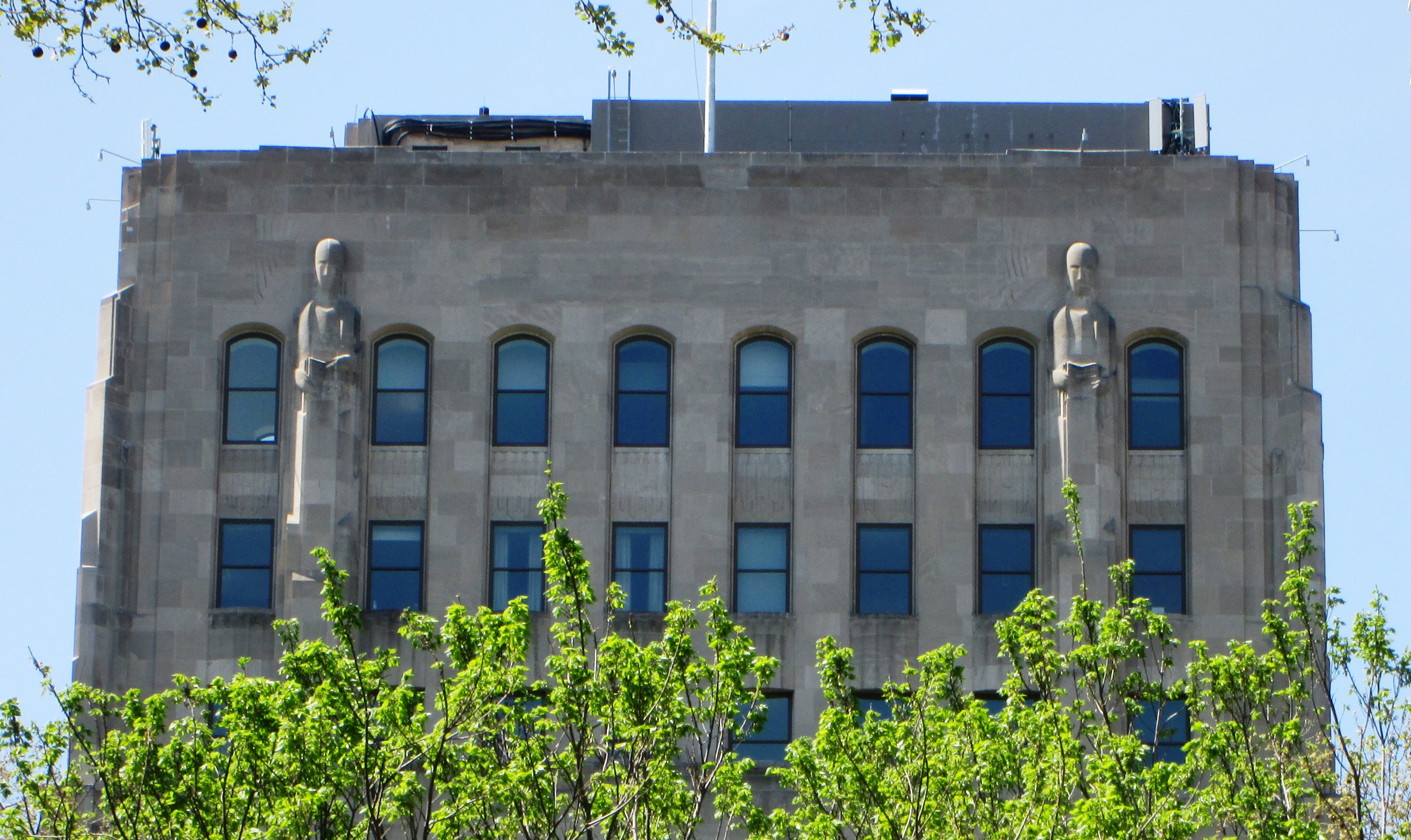 The N.W. Ayer & Son Building at 210 West Washington Square between St. James and Locus Street in the Washington Square West neighborhood of Philadelphia, across from Washington Square, was built in 1928 as the headquarters for Philadelphia's largest advertising company, founded in 1869. The building was designed by Ralph Bencker in the Art Deco style. The top of the building features giant sculptures of robed people, and the entrance has ornate bronze doors. Ayers moved to New York City in 1973, and the building is now a luxury condomonium, "The Ayer". (Source: "Washington Square" on )